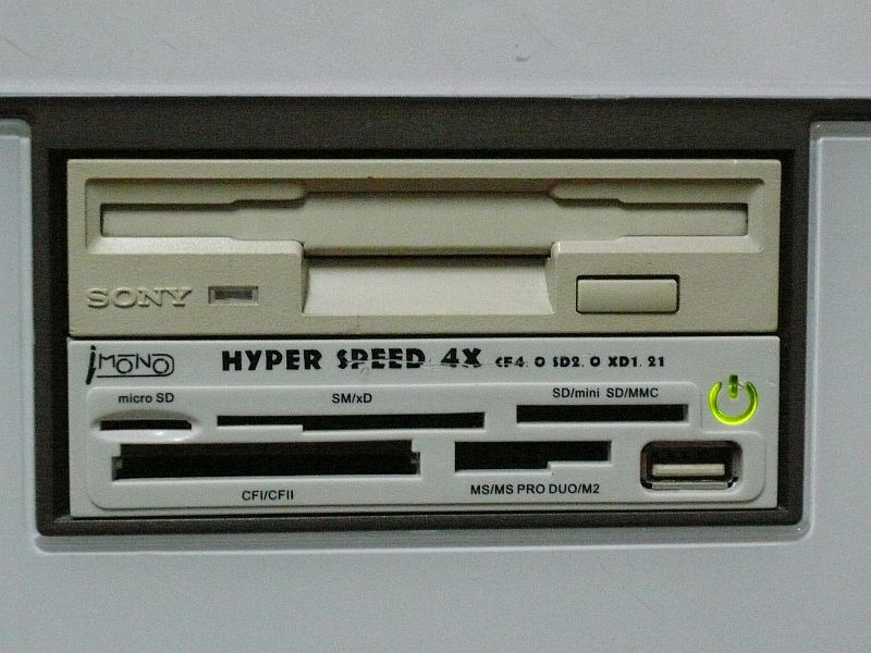 A USB card reader and a floppy drive